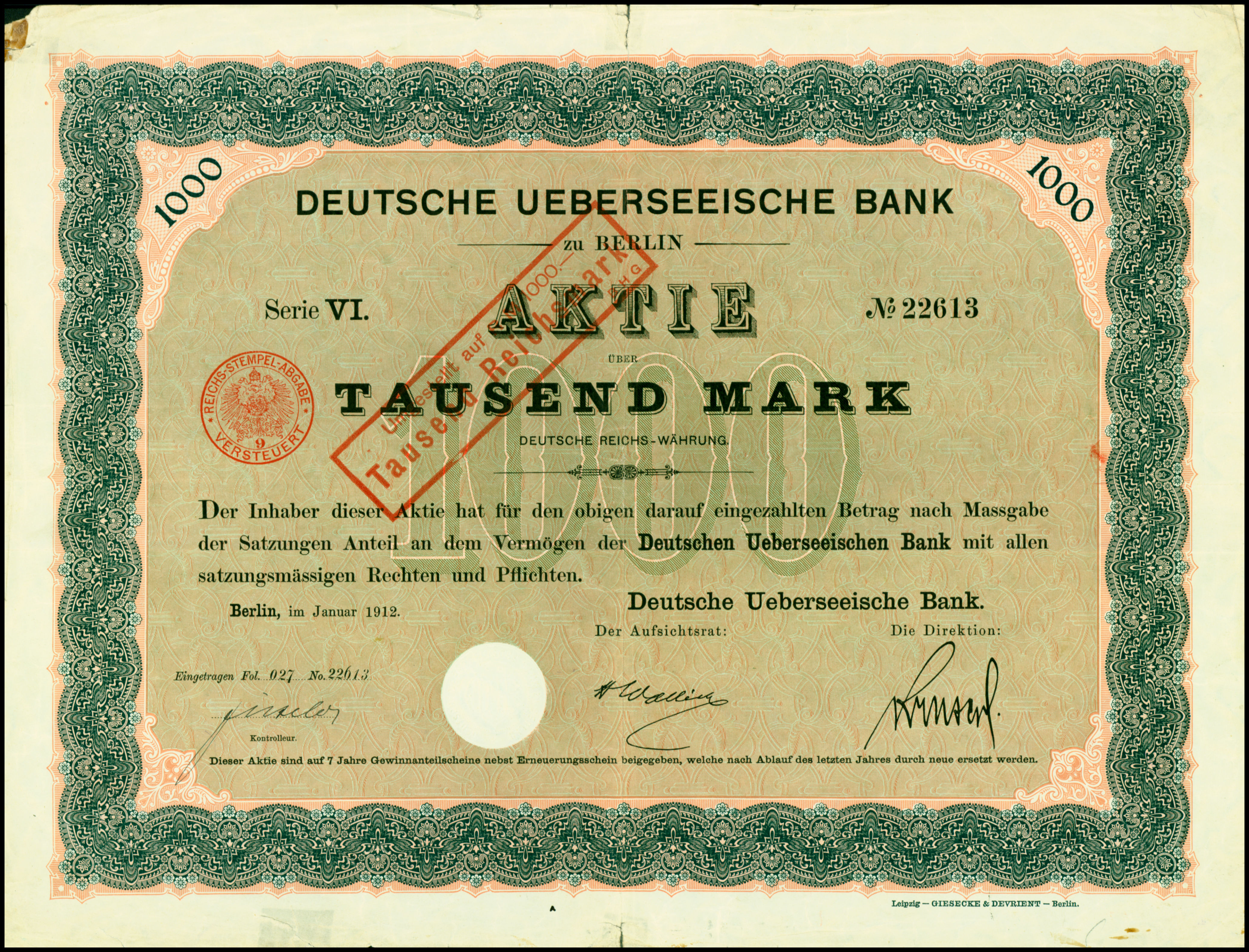 Share of the Deutsche Ueberseeische Bank, issued January 1912